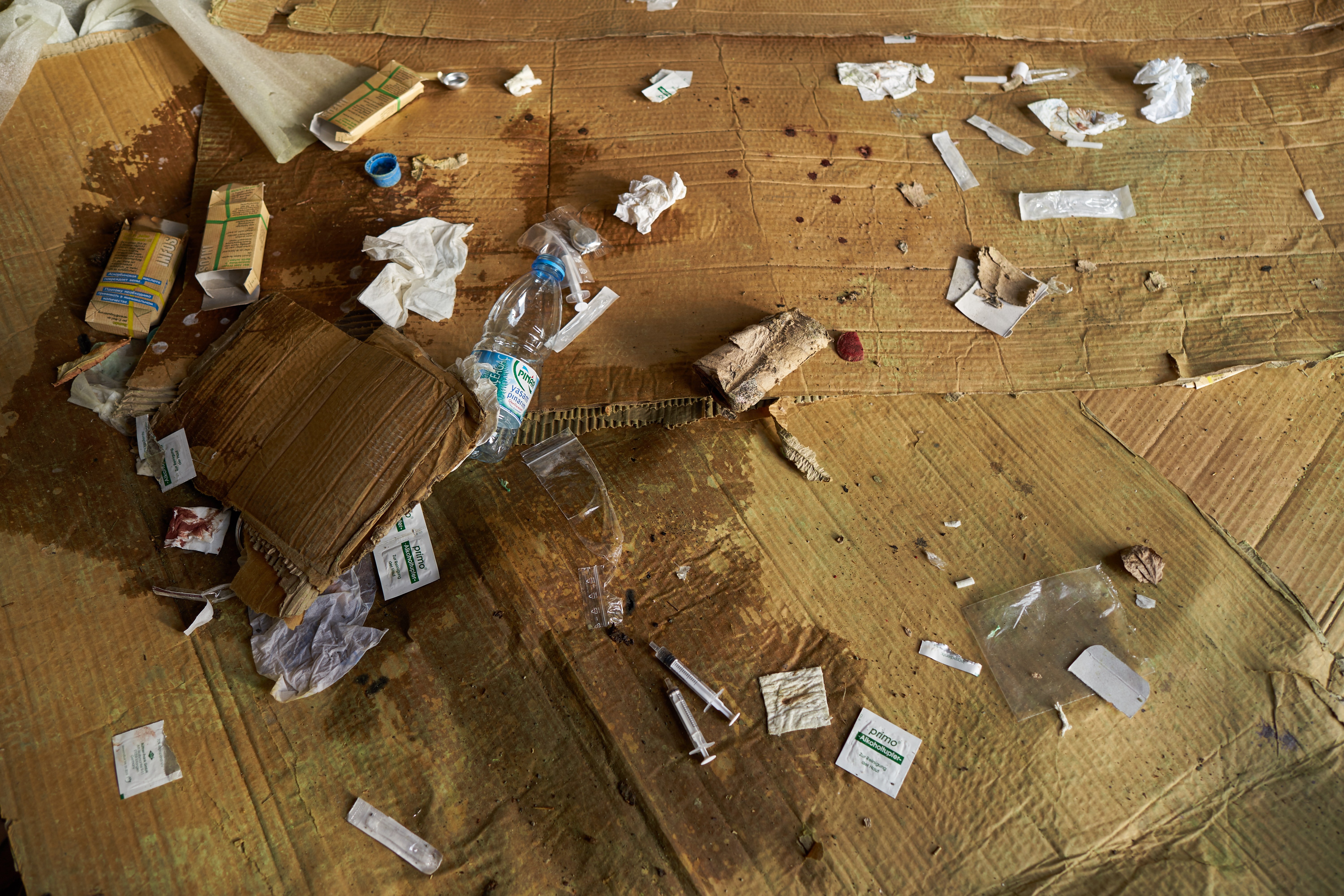 Equipment and signs of use at a hidden place for the use of Heroin in Berlin-Kreuzberg.